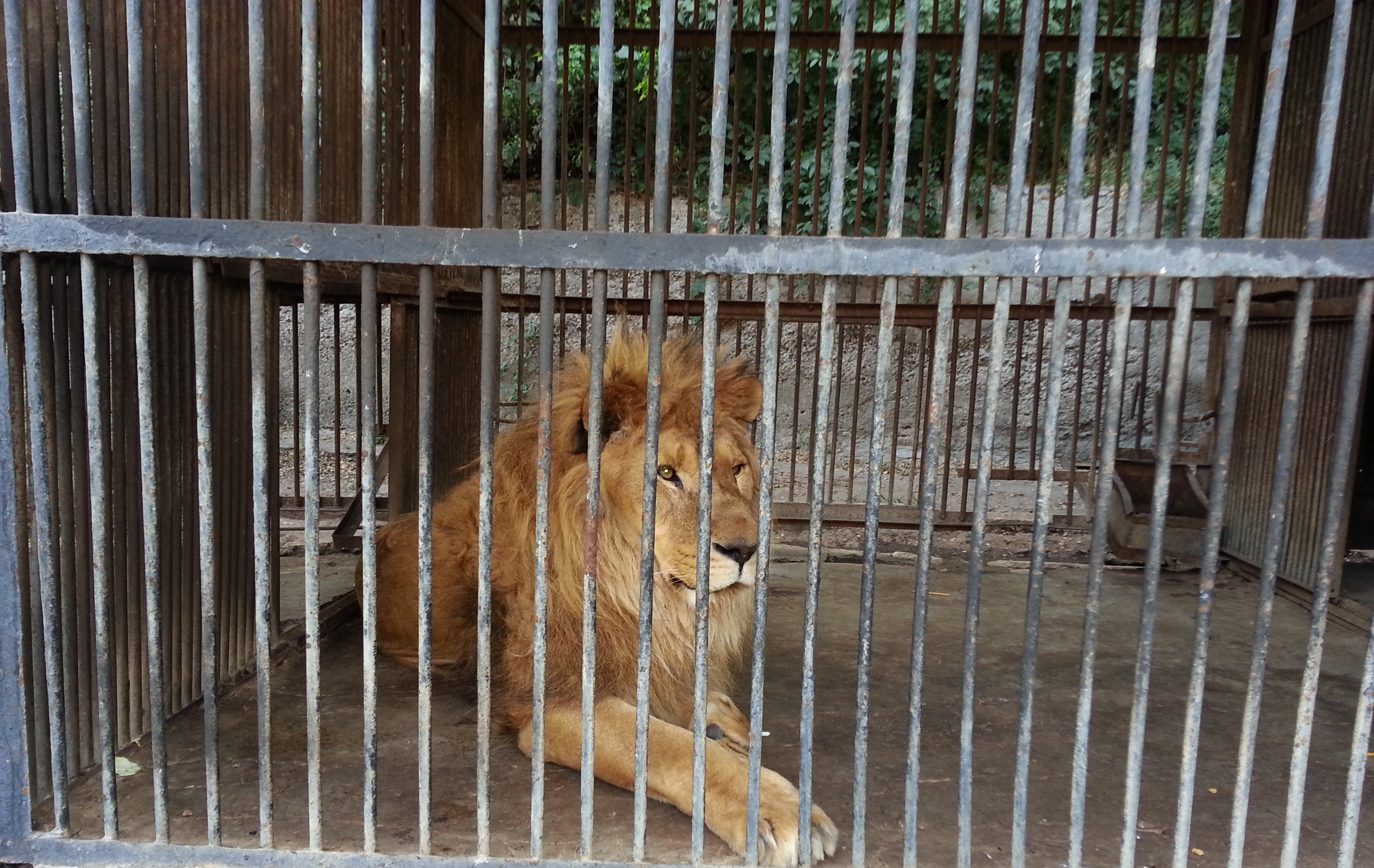 lion in Yerevan zoo park